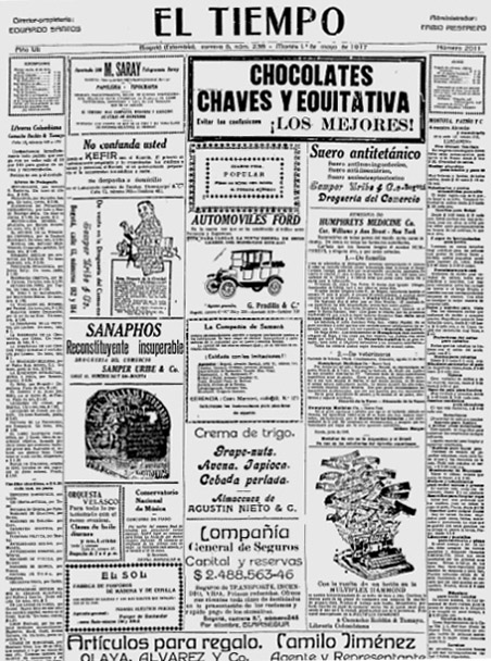 First edition of El Tiempo using its traditional logo. Issued on May 1st, 1917.